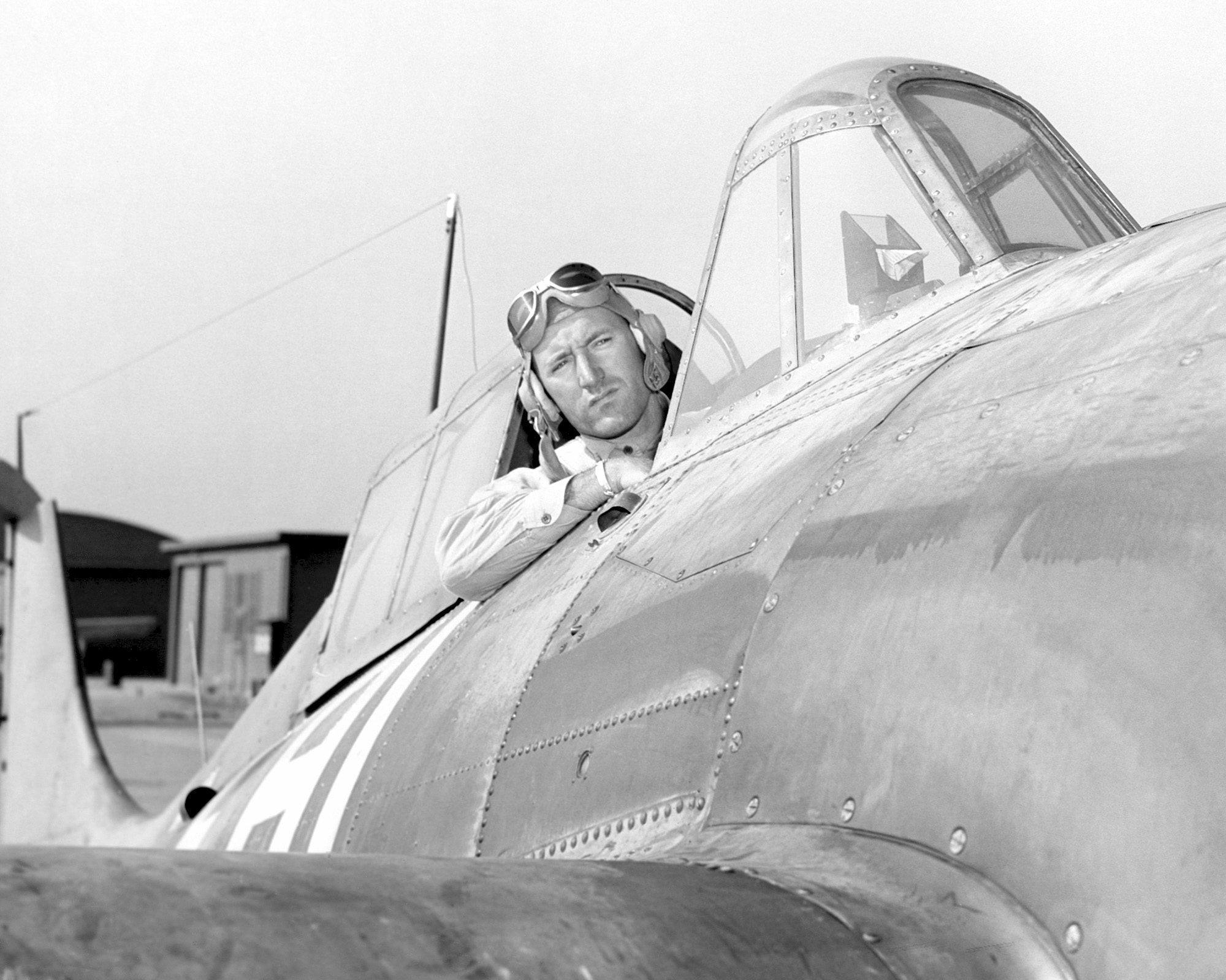 U.S. Marine Corps Major Edmund F. Overend in the cockpit of a Grumman F4F/Eastern Aircraft FM Wildcat fighter (not an F4U) at San Diego, California (USA), in 1945. Maj. Overend was commanding officer of Marine fighter squadron VMF-321 in the Solomons from October 1943 to October 1944 (flying the Vought F4U-1 Corsair). He shot down three Japanese aircraft during that time. He had shot down the others as a pilot of the "American Volunteer Group" (the "Flying Tigers") in China.Original caption: "World War II (WWII) era photograph of US Marine Corps (USMC) Major (MAJ), Edmund F. Overend, taken at San Deigo, California (CA), 1945 as he sits in the cockpit of a US Navy (USN) F4U "CORSAIR" aircraft. MAJ Overend is an Ace Pilot credited with 9 kills."